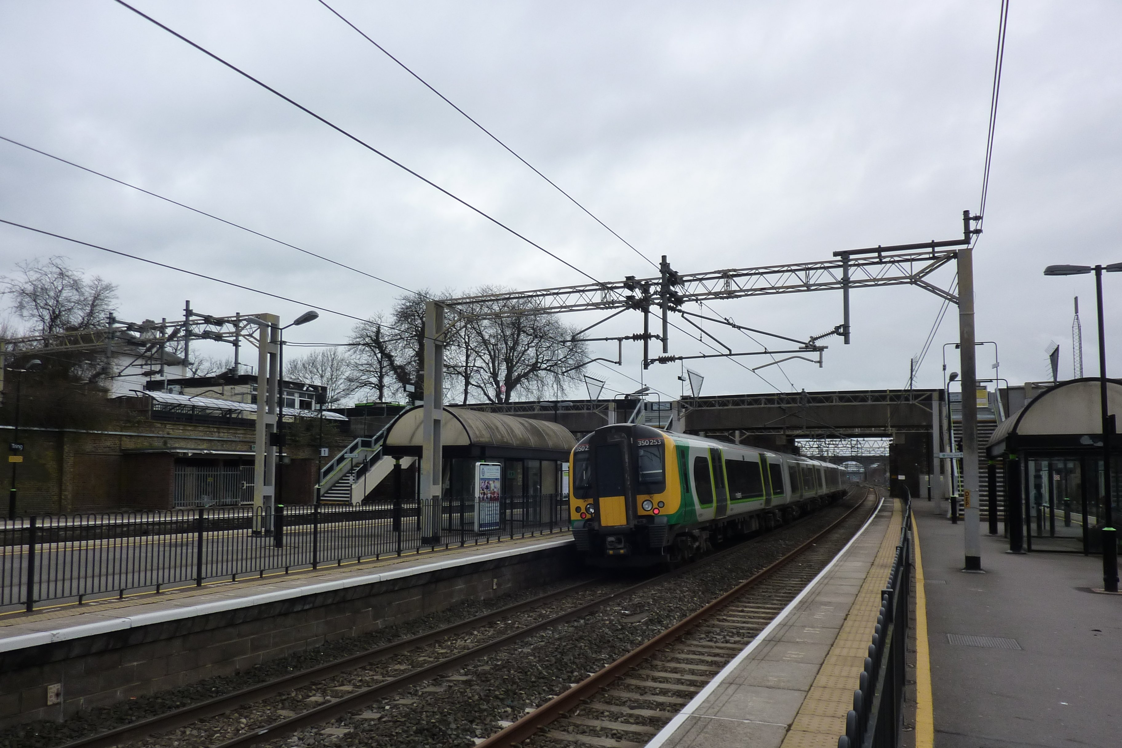 And with that it was time to head back home as we arrived back at Tring station ready for our London Midland service south. Read more about my Ridgeway journey at .uk/ridgeway